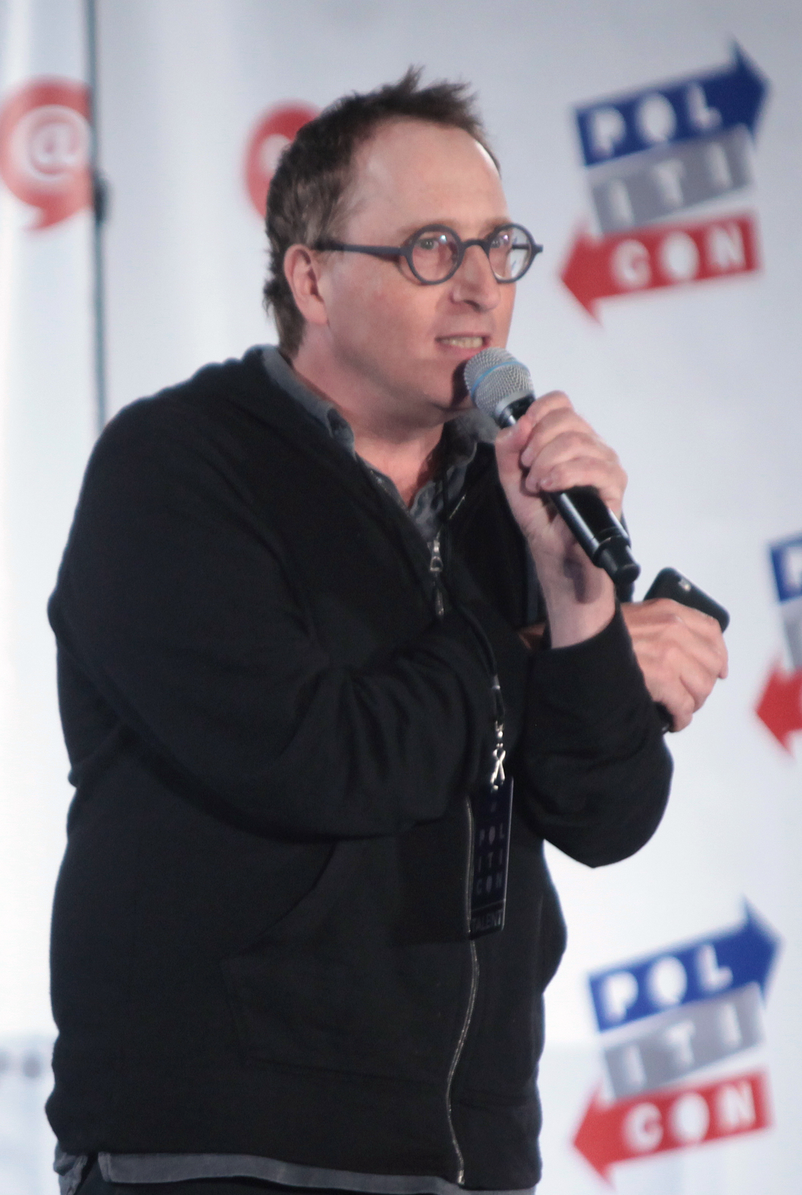 Jon Ronson speaking at the 2016 Politicon at the Pasadena Convention Center in Pasadena, California.